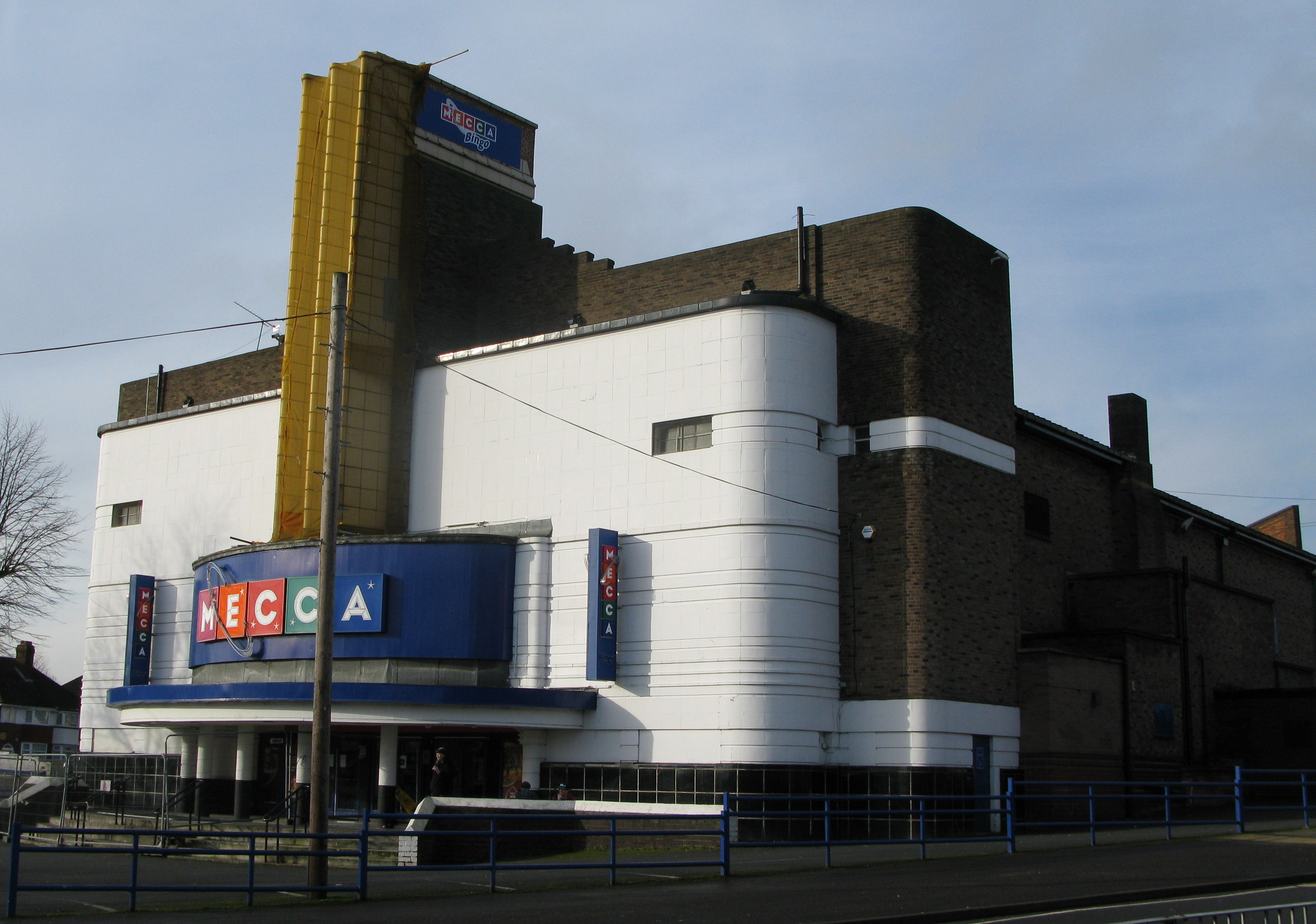 Grade II